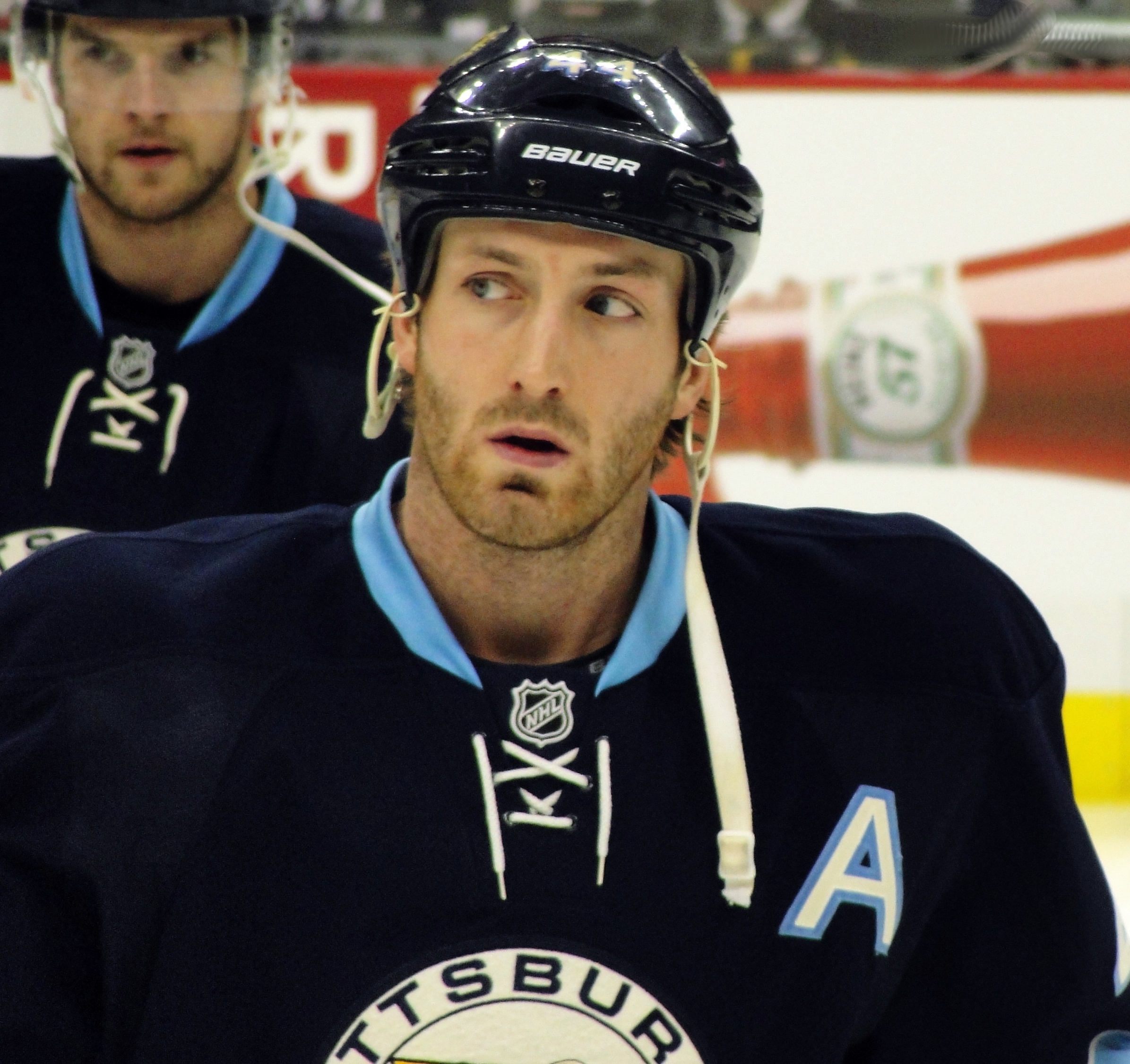 Brooks Orpik of the Pittsburgh Penguins during a game against the Montreal Canadiens January 20, 2012 at Consol Energy Center in Pittsburgh, PA.